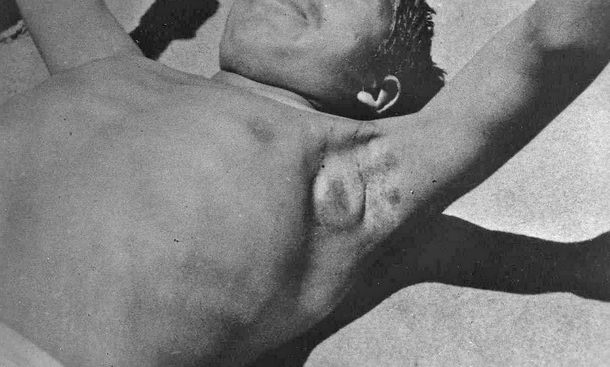 Bubo of the axi in bubonic plague.